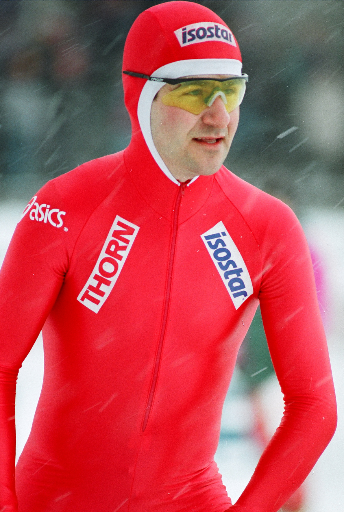 Rolf Falk-Larssen is a former norwegian speedskater